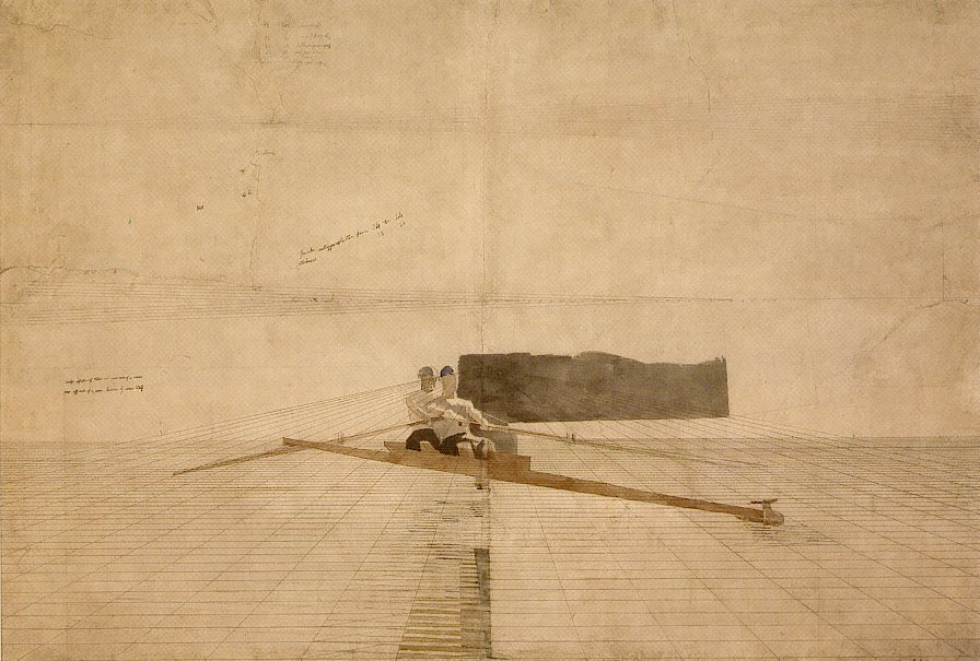 Drawing for The Pair-Oared Shell by Thomas Eakins